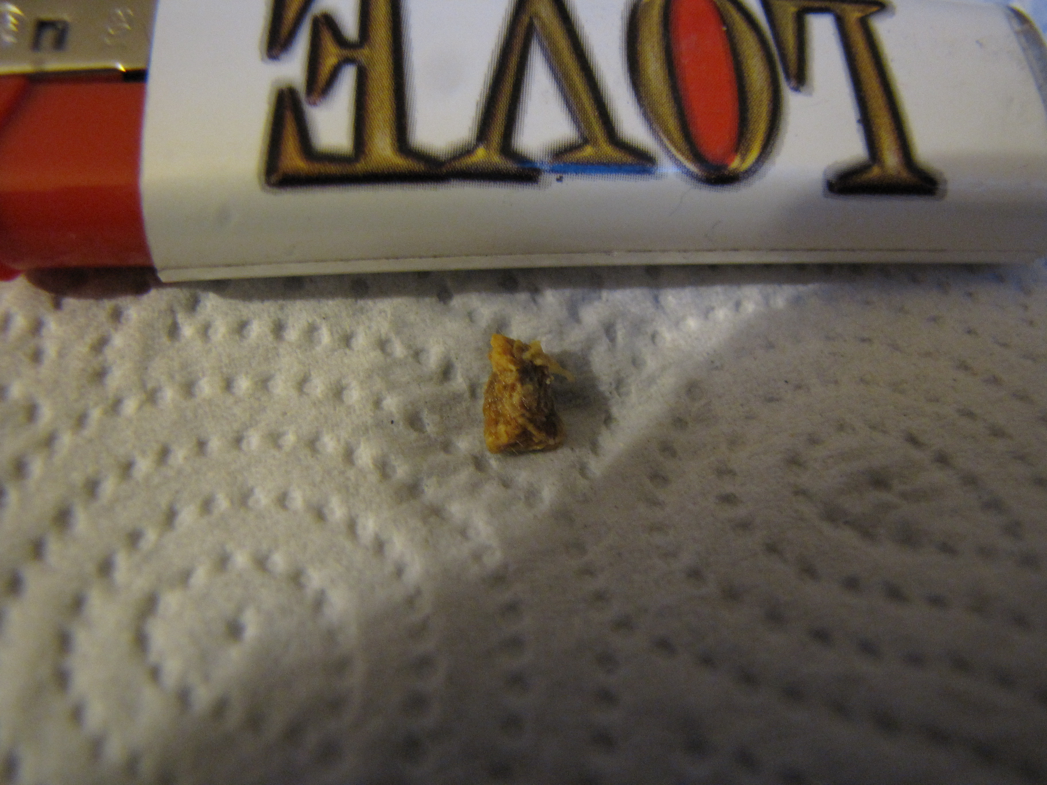 Cerumen I took out of my girlfriend' ear